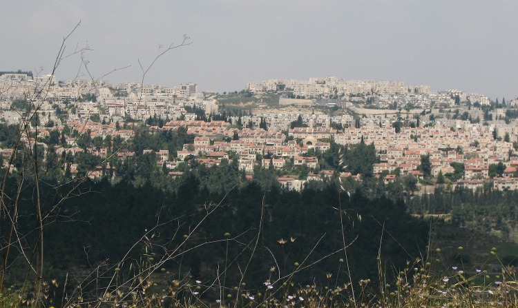 View of Mevaseret Zion.